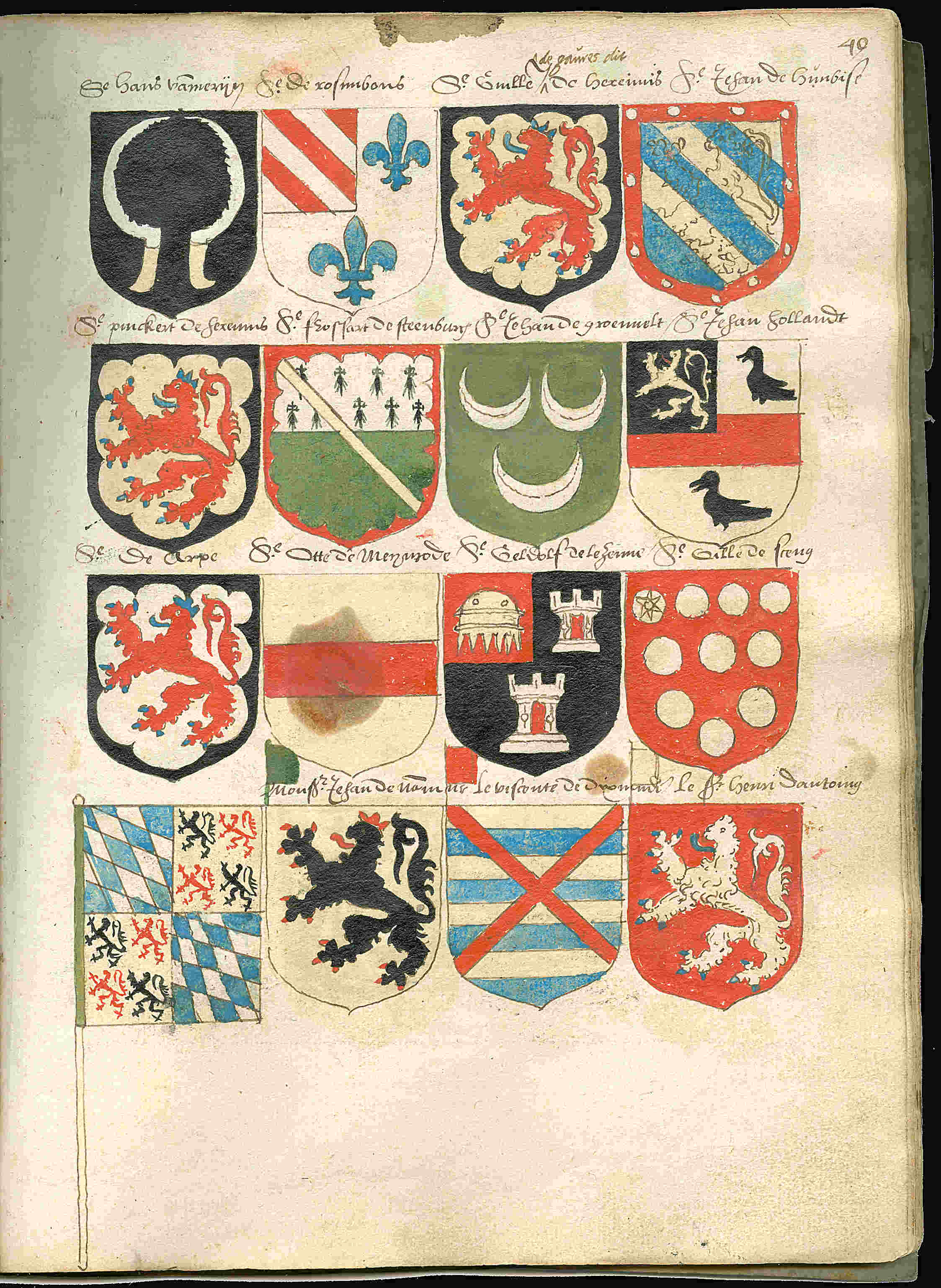 Page 49 from a copy of the Beyeren armorial / Wapenboek Beyeren from ca. 1600. The original Beyeren armorial from 1405 can be viewed at the website of the KB